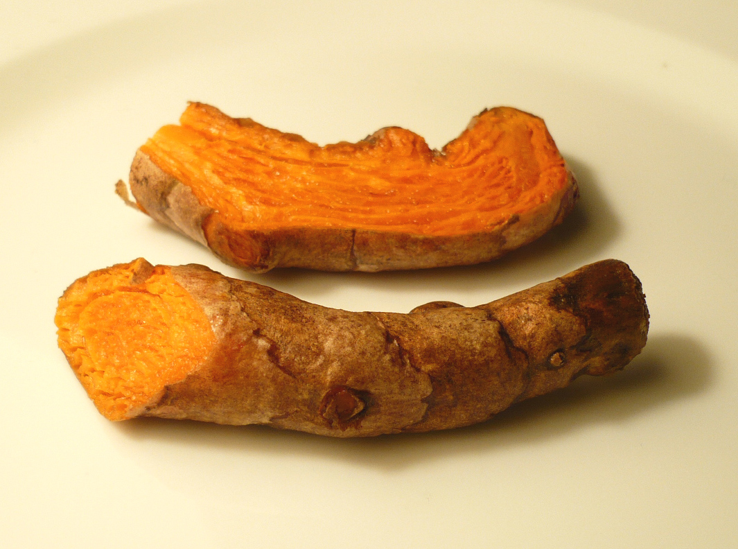 Turmeric root. Photo taken in Kent, Ohio with a Panasonic Lumix digital camera (model DMC-LS75). Frozen turmeric root (produced in Thailand) purchased from a Cleveland, Ohio Chinese grocery store.